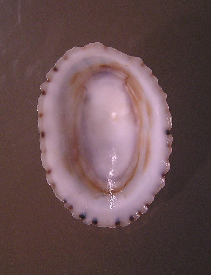 Patelloida nigrosulcata L. A. Reeve, 1825, a limpet from the family Lottiidae; Western Australia